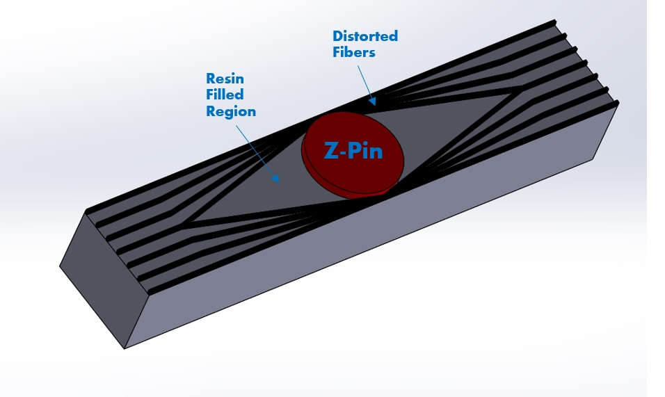 This is a 3D model of a Z-pin inserted in the fibers of a composite.